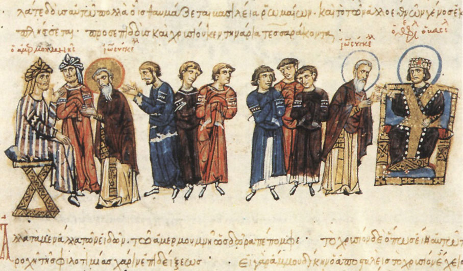 The embassy of John the Grammarian in 829, between the Byzantine emperor Theophilos (right) and the Abbasid caliph Al-Ma'mun, from the Madrid Skylitzes, fol. 47r, detail.